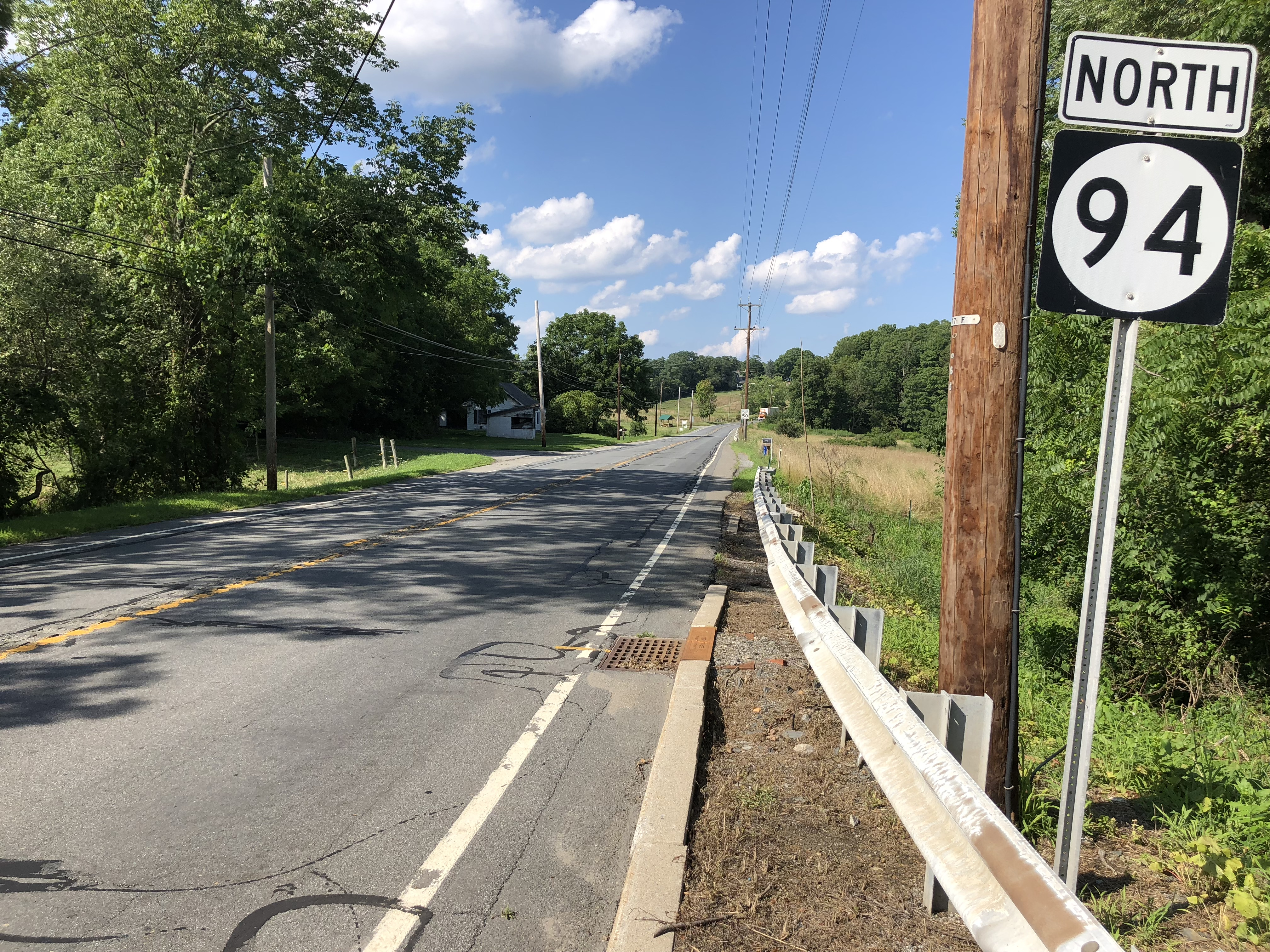 View north along New Jersey State Route 94 just north of Hunts Road in Fredon Township, Sussex County, New Jersey